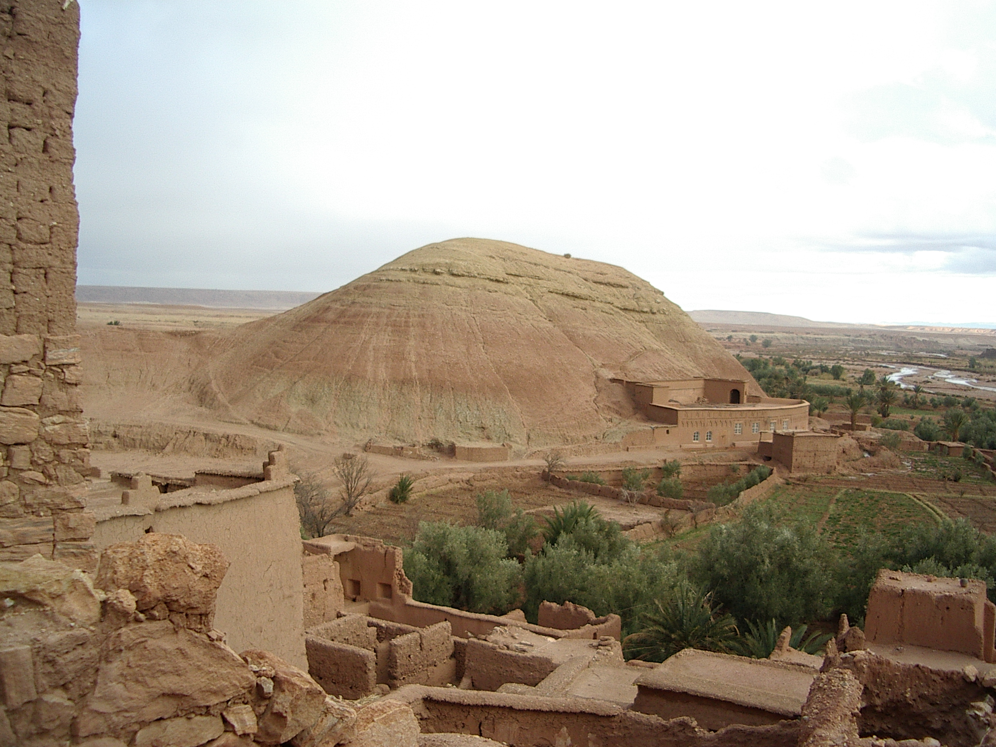 Casbah in Morocco